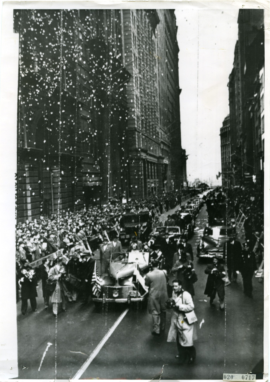 State visit Juliana, Queen of The Netherlands, Bernhard, Prince of The Netherlands, Broadway, New York